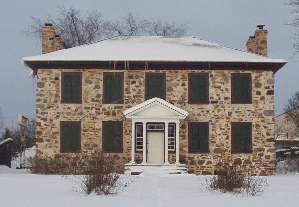 Old Stone House